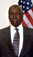 Daniel arap Moi, the President of Kenya at the United Nations Headquarters in New York City, New York, USA